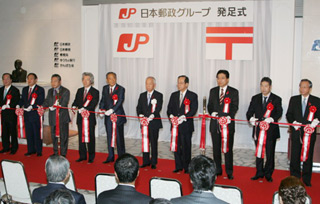 Yasuo Fukuda, Prime Minister, Hiroya Masuda, Minister for Internal Affairs and Communications, Jun'ichirō Koizumi, Member of the House of Representatives, and Yoshifumi Nishikawa, President of Japan Post Holdings Co., Ltd., attended the Opening Ceremony of Japan Post Group in Tōkyō Metropolis on October 1, 2007.